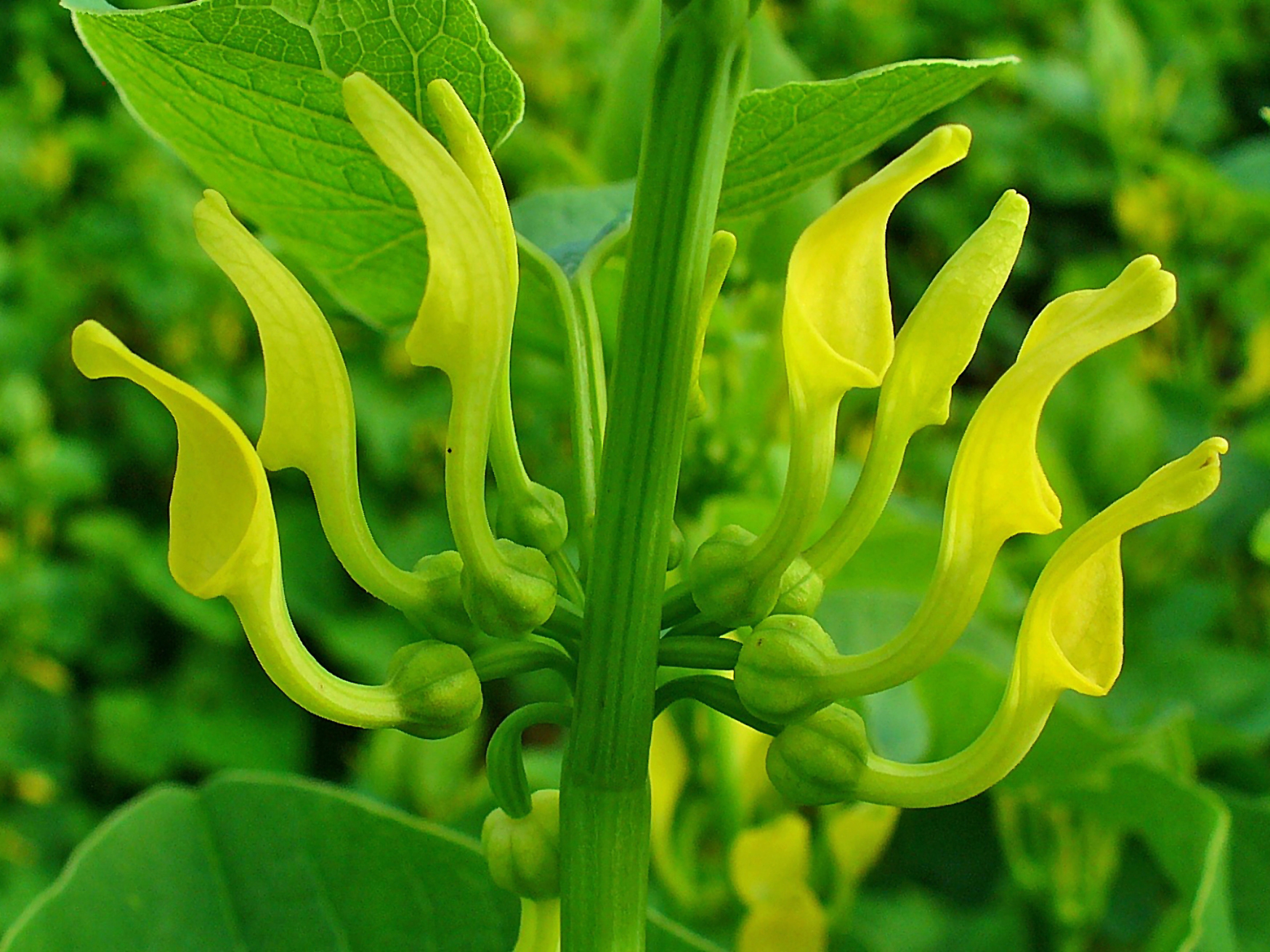 European Birthwort, flowers; Stutensee, Germany